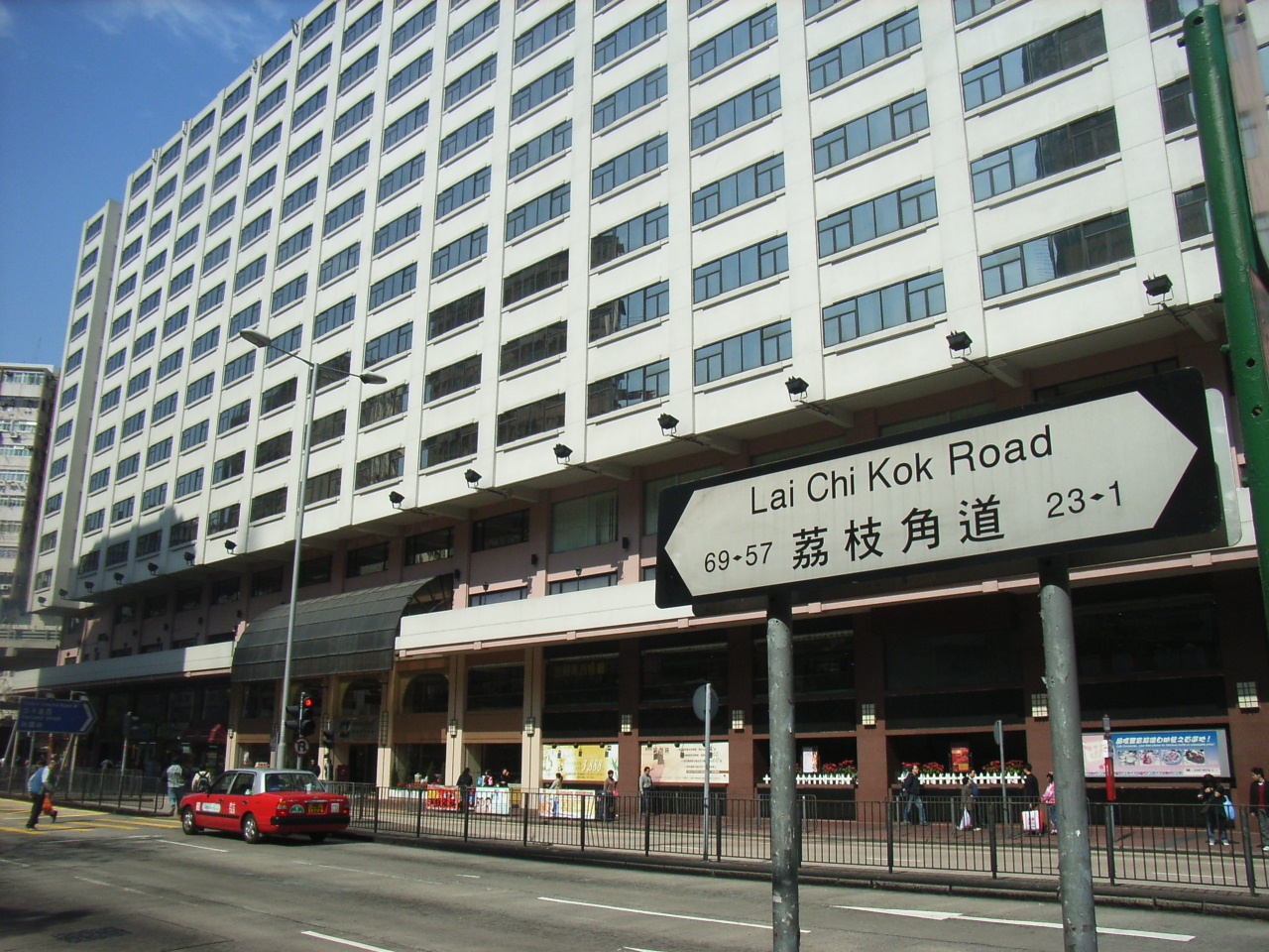 Lai Chi Kok Road (荔枝角道) is a road from Lai Chi Kok to Mong Kok, via Tai Kok Tsui, Sham Shui Po and Cheung Sha Wan in western New Kowloon of Hong Kong. It starts from the junction with Nathan Road near Pioneer Centre in the south and ends near Mei Foo Sun Chuen. Photo by User:OLAMB.